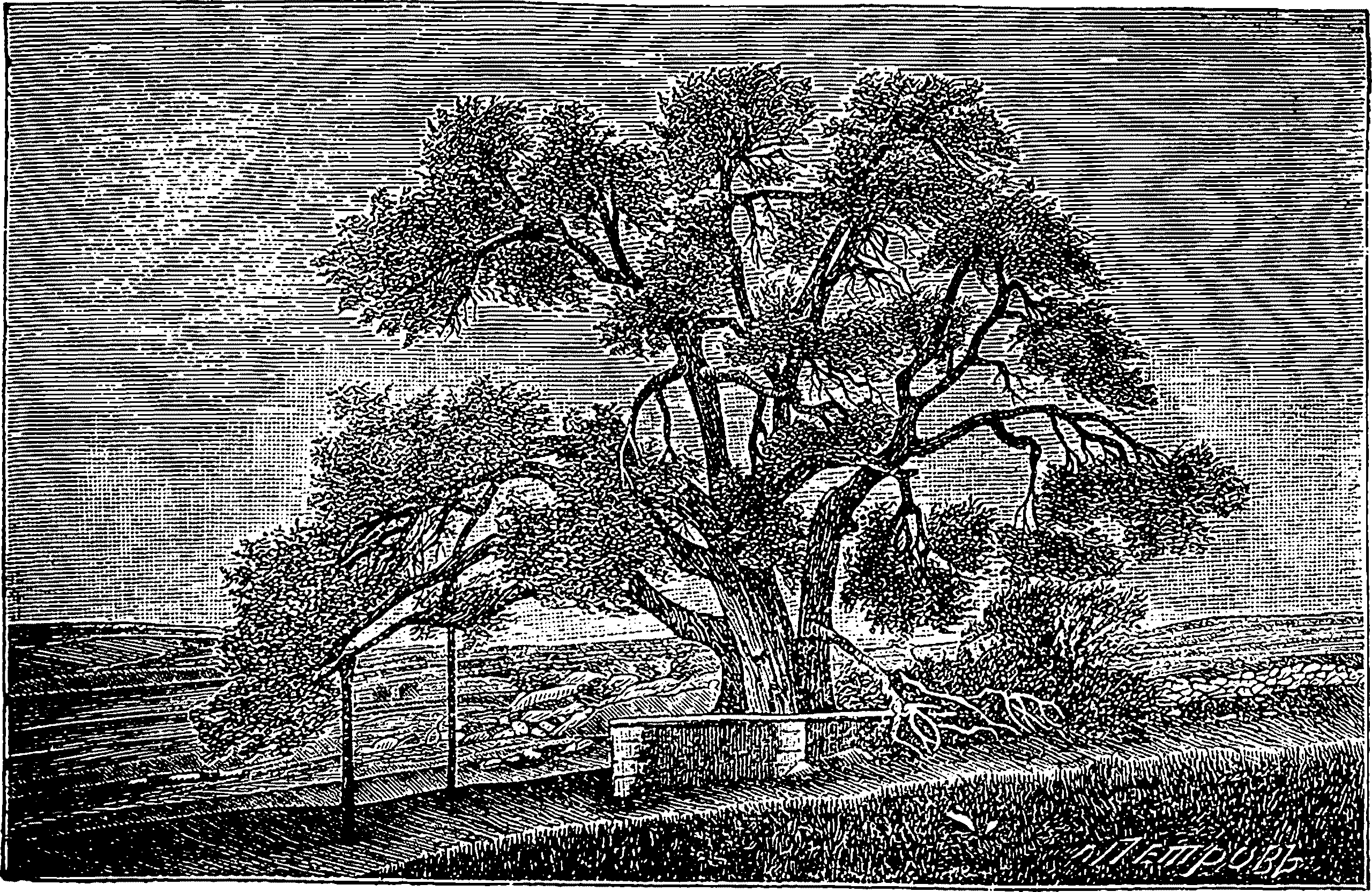 Oak of Mamre. Picture from popular bible encyclopedia of Archimandrite Nicephorus (1892).